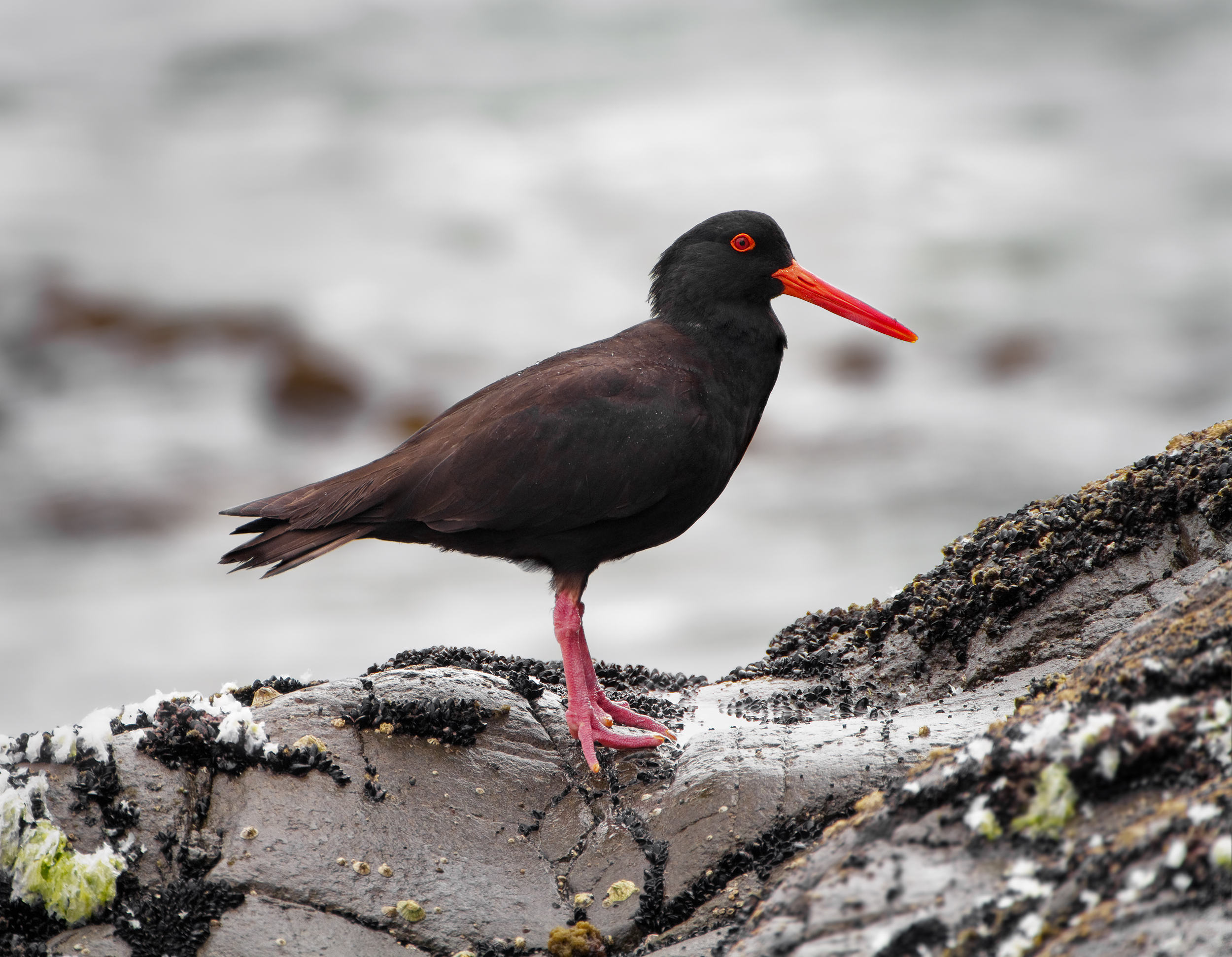 Sooty Oystercatcher (Haematopus fuliginosus), Bruny Island, Tasmania, Australia